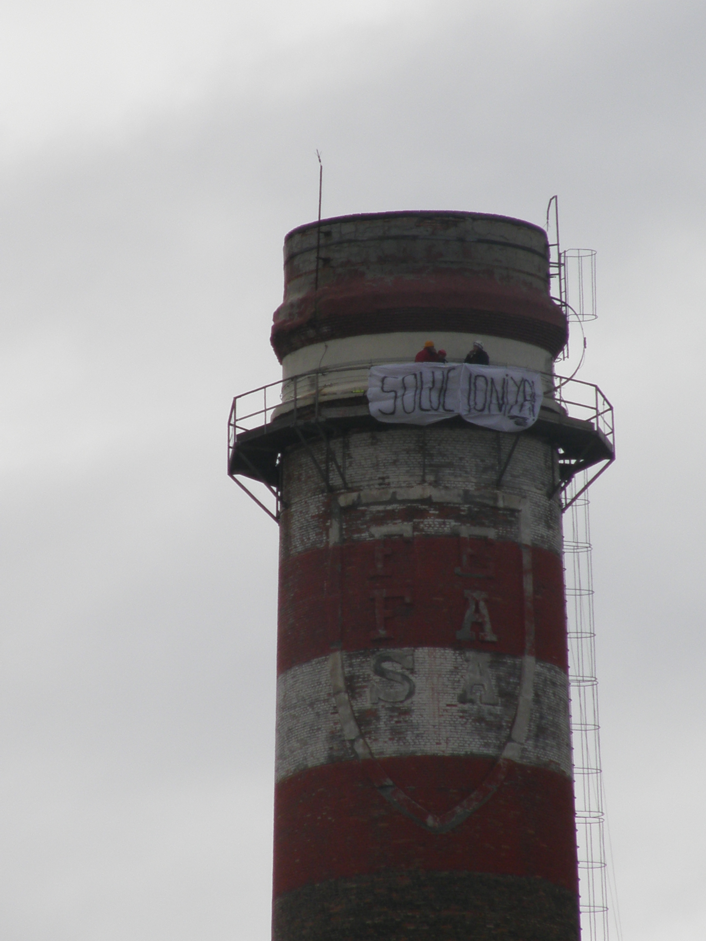 Workers on the crow's nest of a chimney, camped in protest of the closure of the Rottneros paper mill (formerly FEFASA) in the city of Miranda de Ebro, Castile and León, Spain.